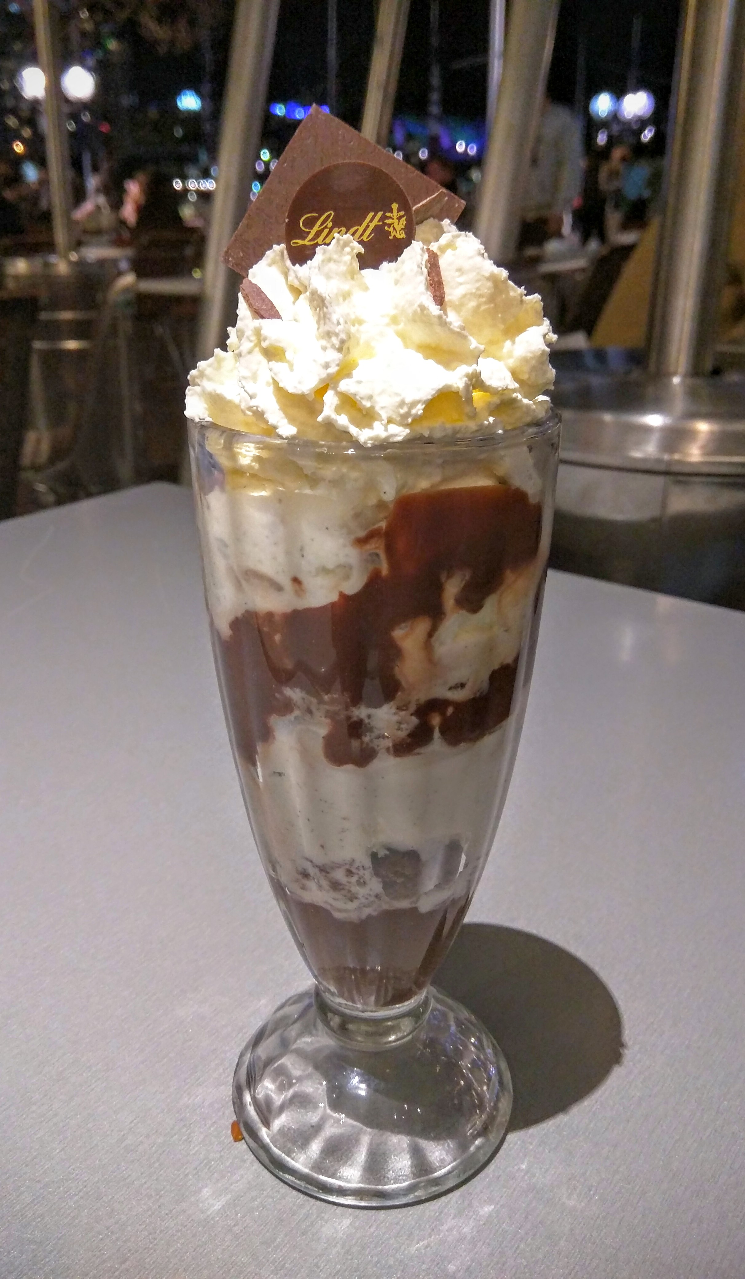 Lindt chocolate sundae